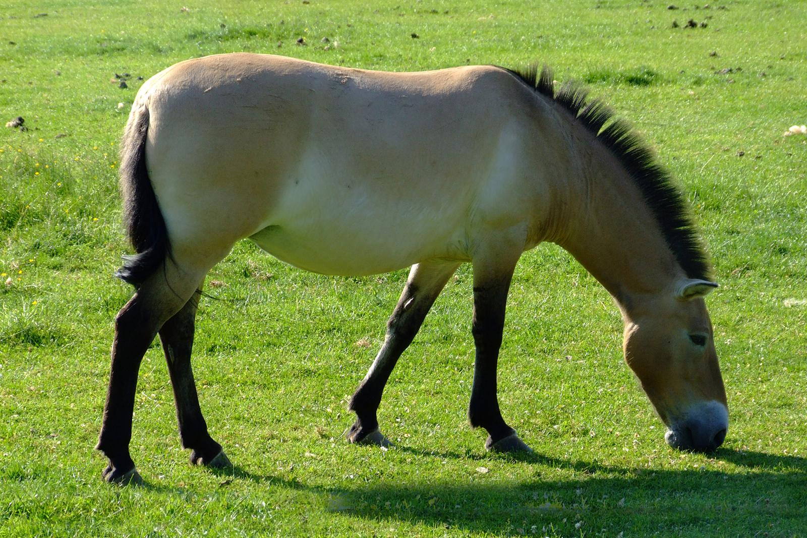 A Przewalski's Horse at Marwell Wildlife, Hampshire, England.